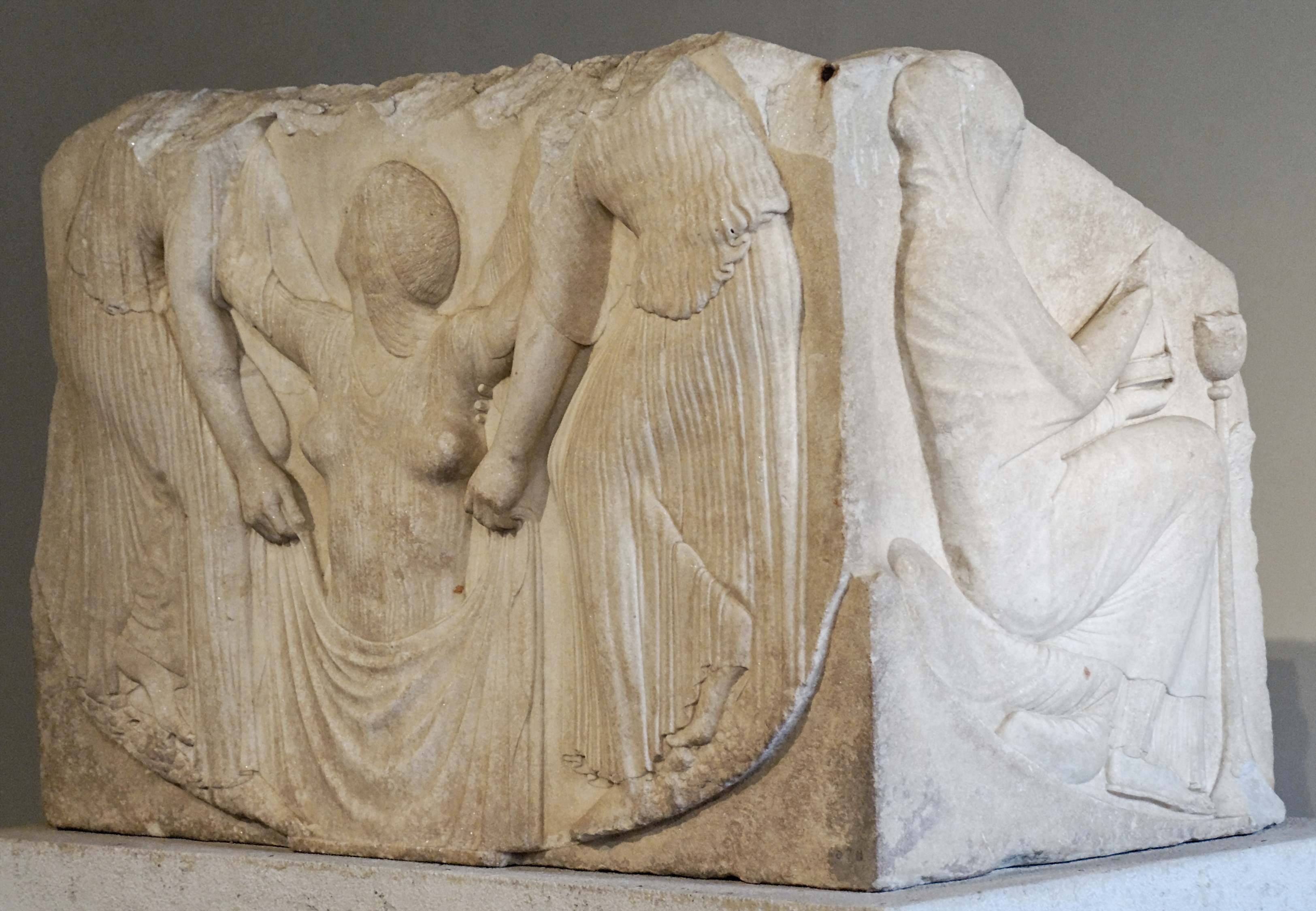 So-called “Ludovisi Throne”. Thasian marble, Greek artwork, ca. 460 BC (authenticity disputed). Found in 1887 during public works in the Villa Ludovisi.